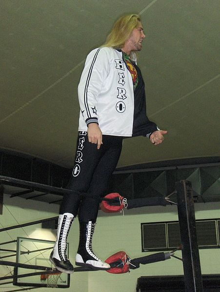 Chris Hero at IWA East Coast in South Charleston, West Virginia.